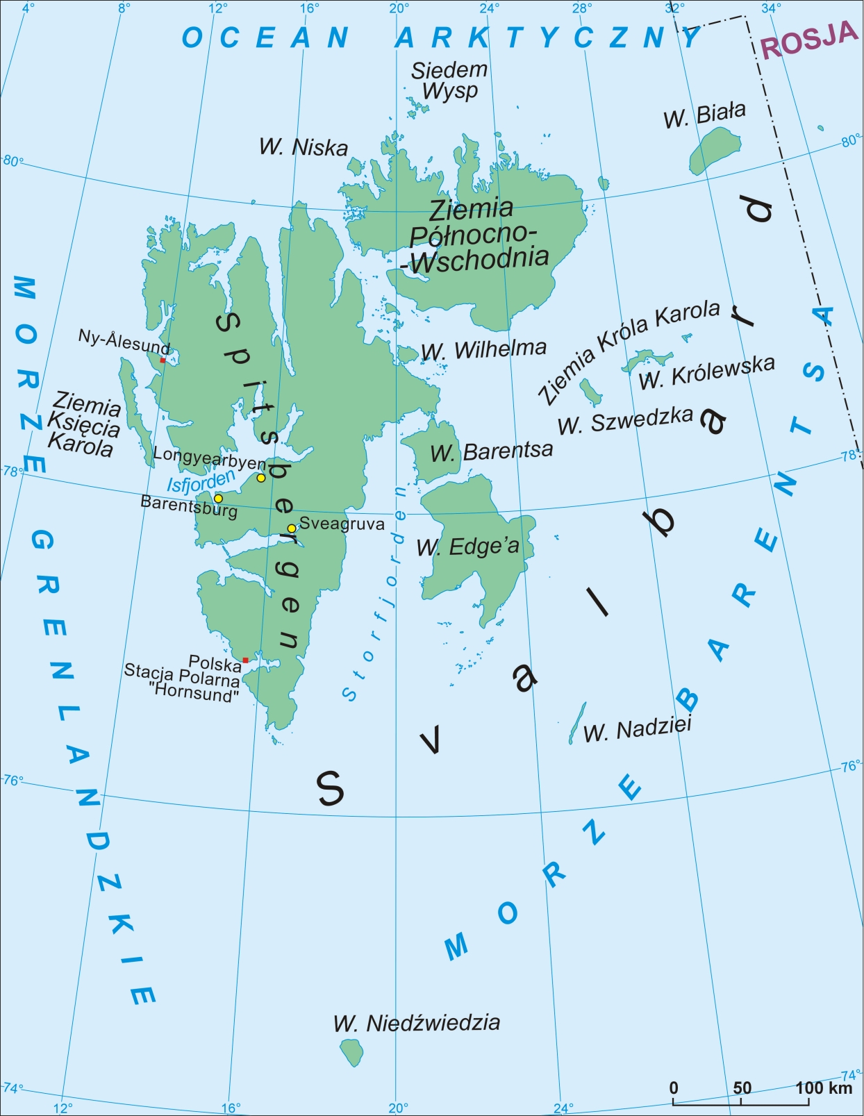 Map of Svalbard (with Polish labels)